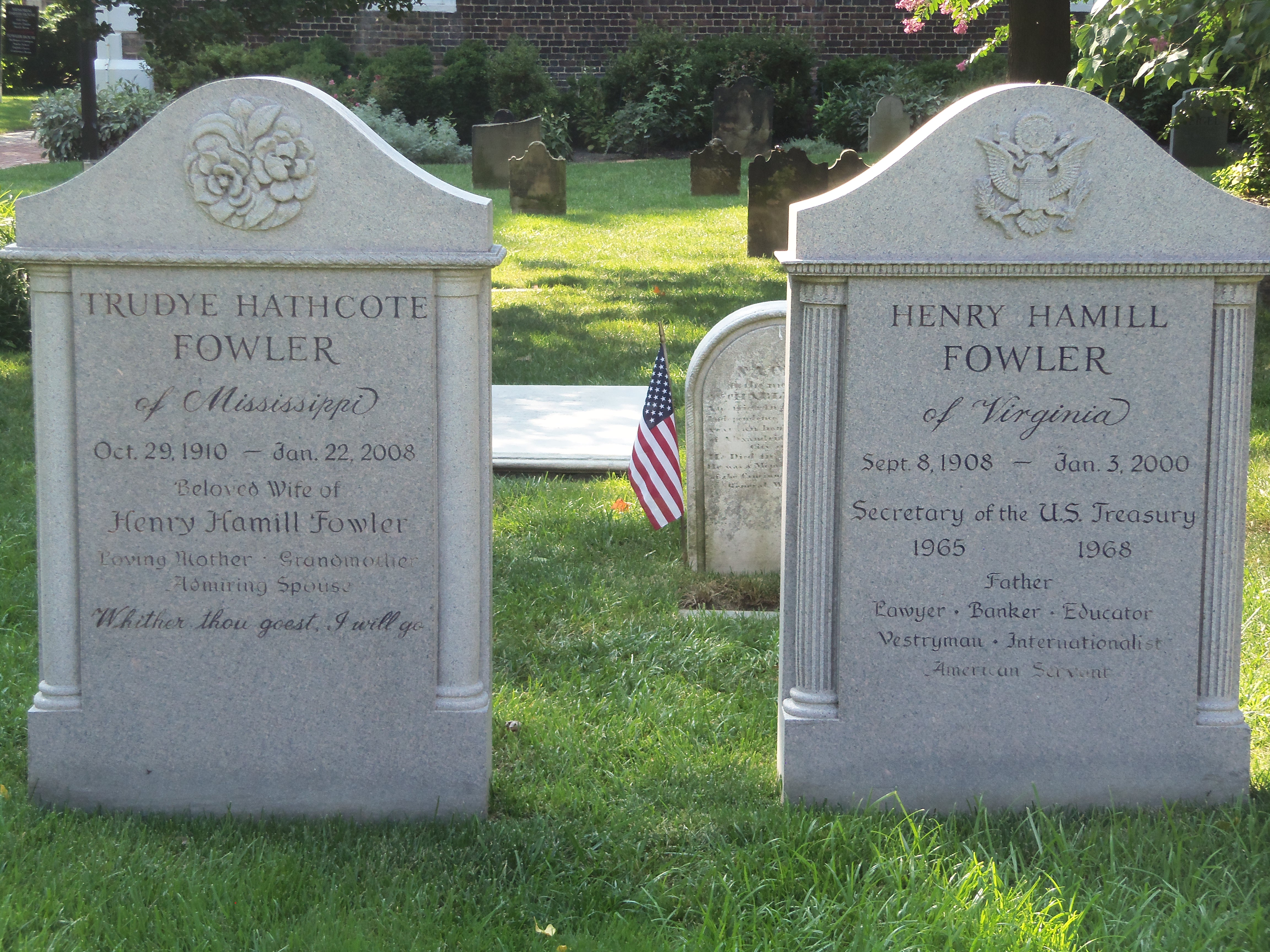 The graves of Henry H. Fowler, former Secretary of the Treasury, and his wife Trudye at Christ Church in Alexandria, Virginia.